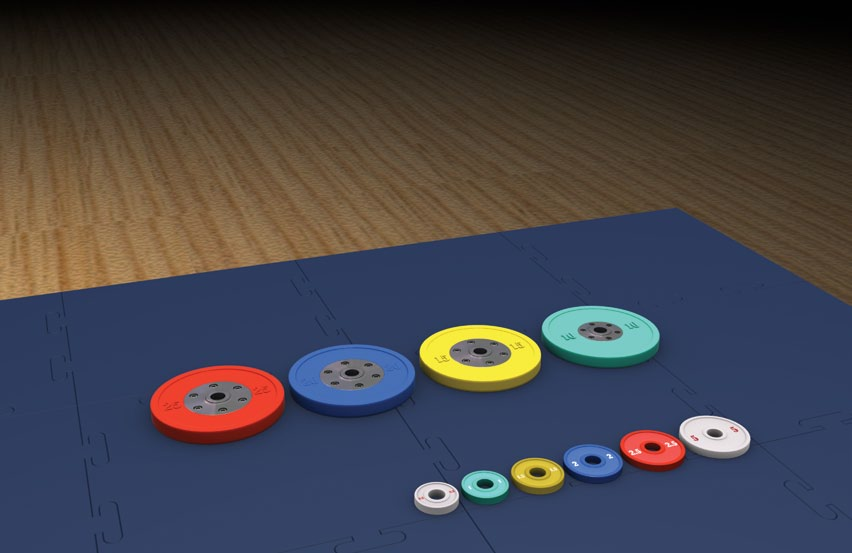 olympic weightlifting